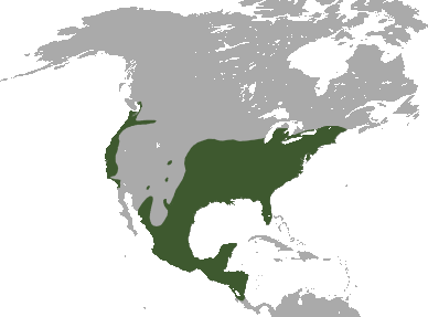 Virginia Opossum (Didelphis virginiana) range